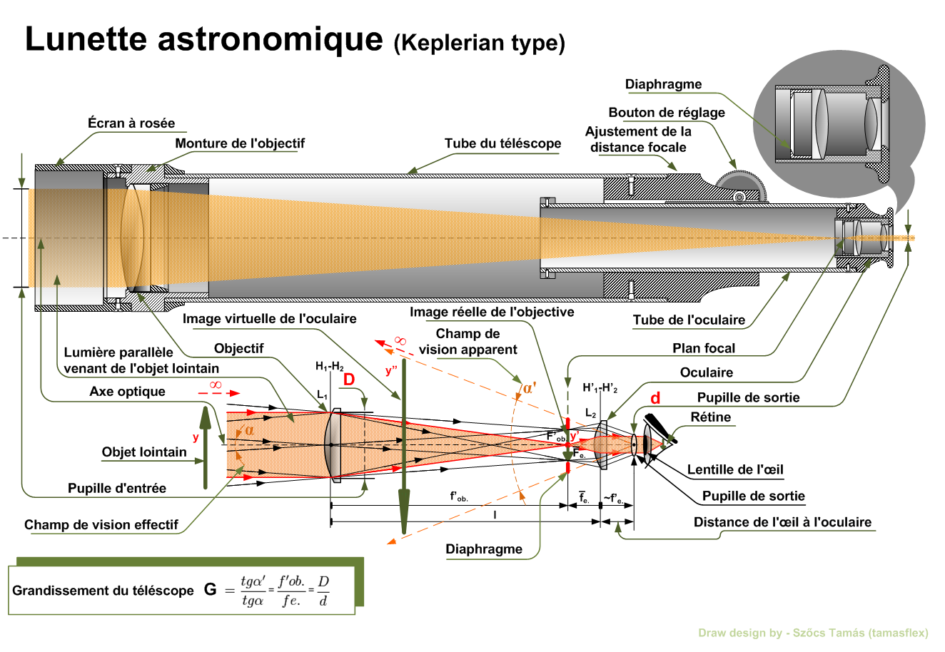 Lunette astronomique